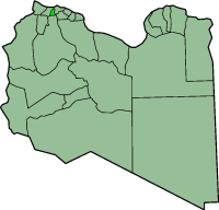 Map identifying and highlighting the location of the Al 'Aziziyah District in Libya.